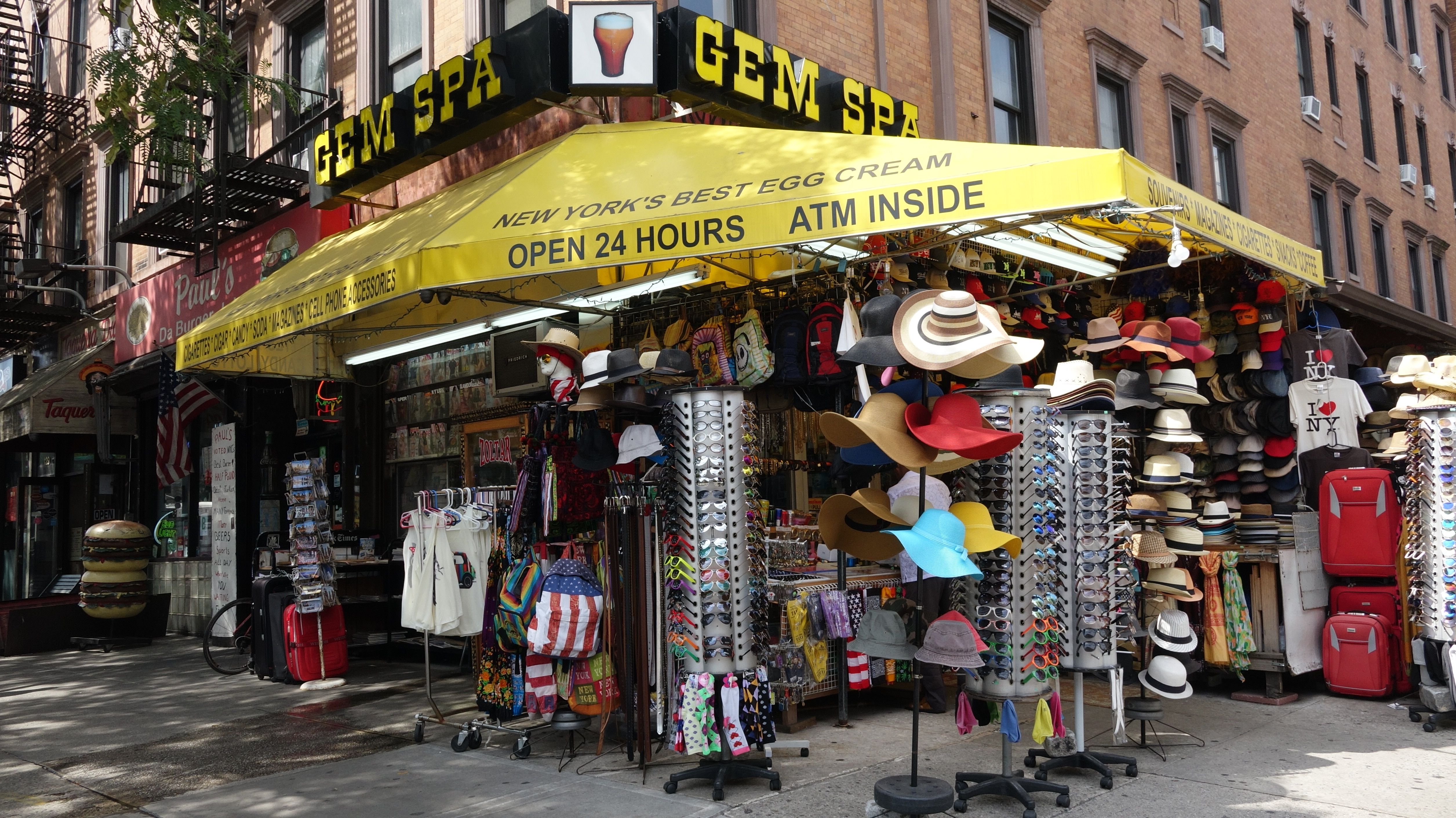 Gem Spa in NYC